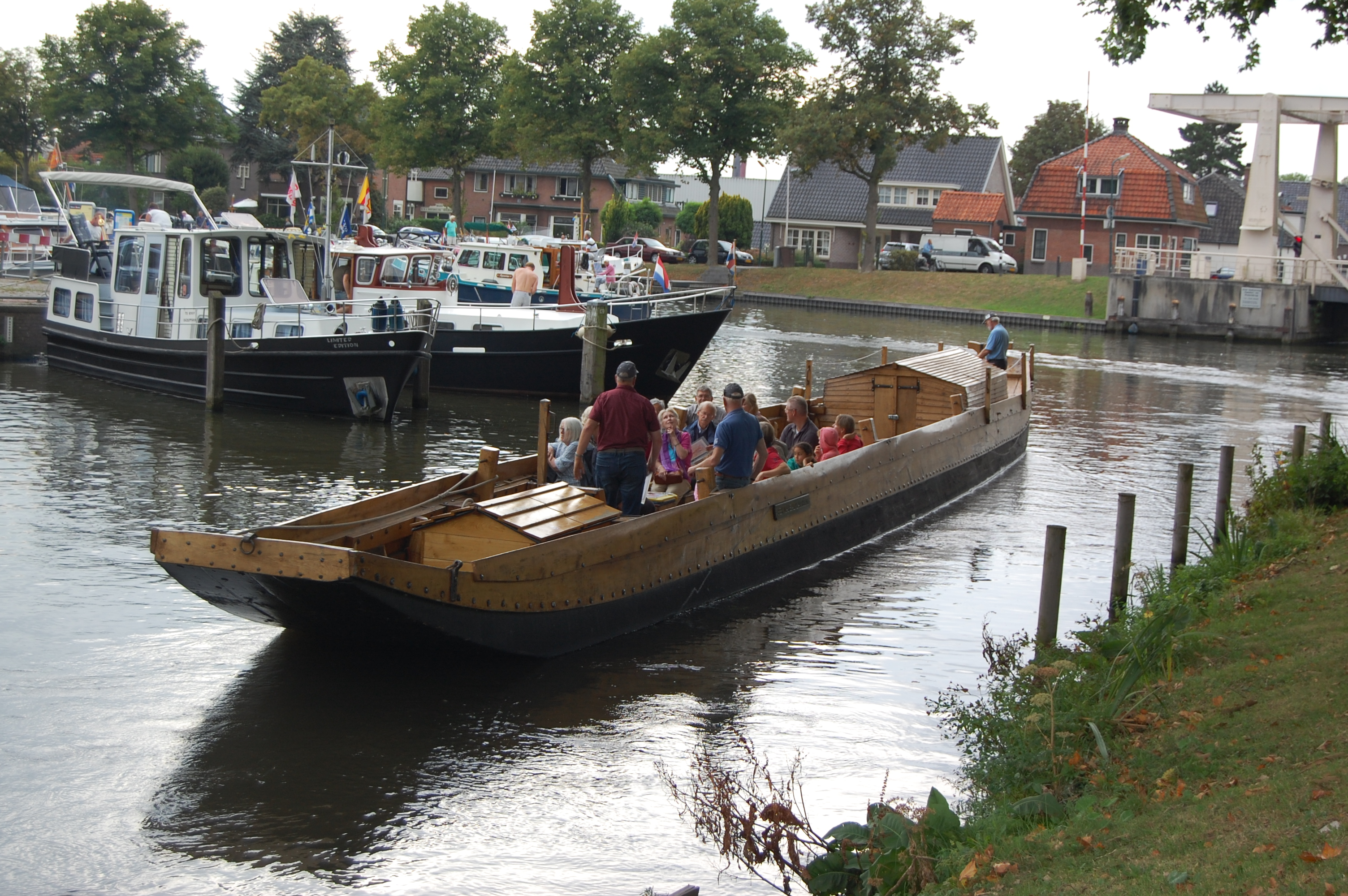 Reconstructed Roman ship from De Meern, seen in Woerden.